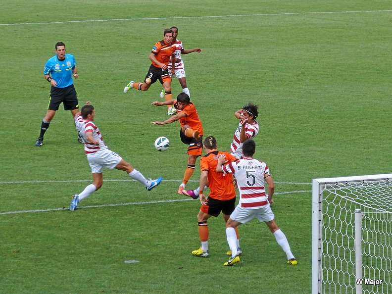 A-League Brisbane Roar v Western Sydney Wanderers 20 January 2013